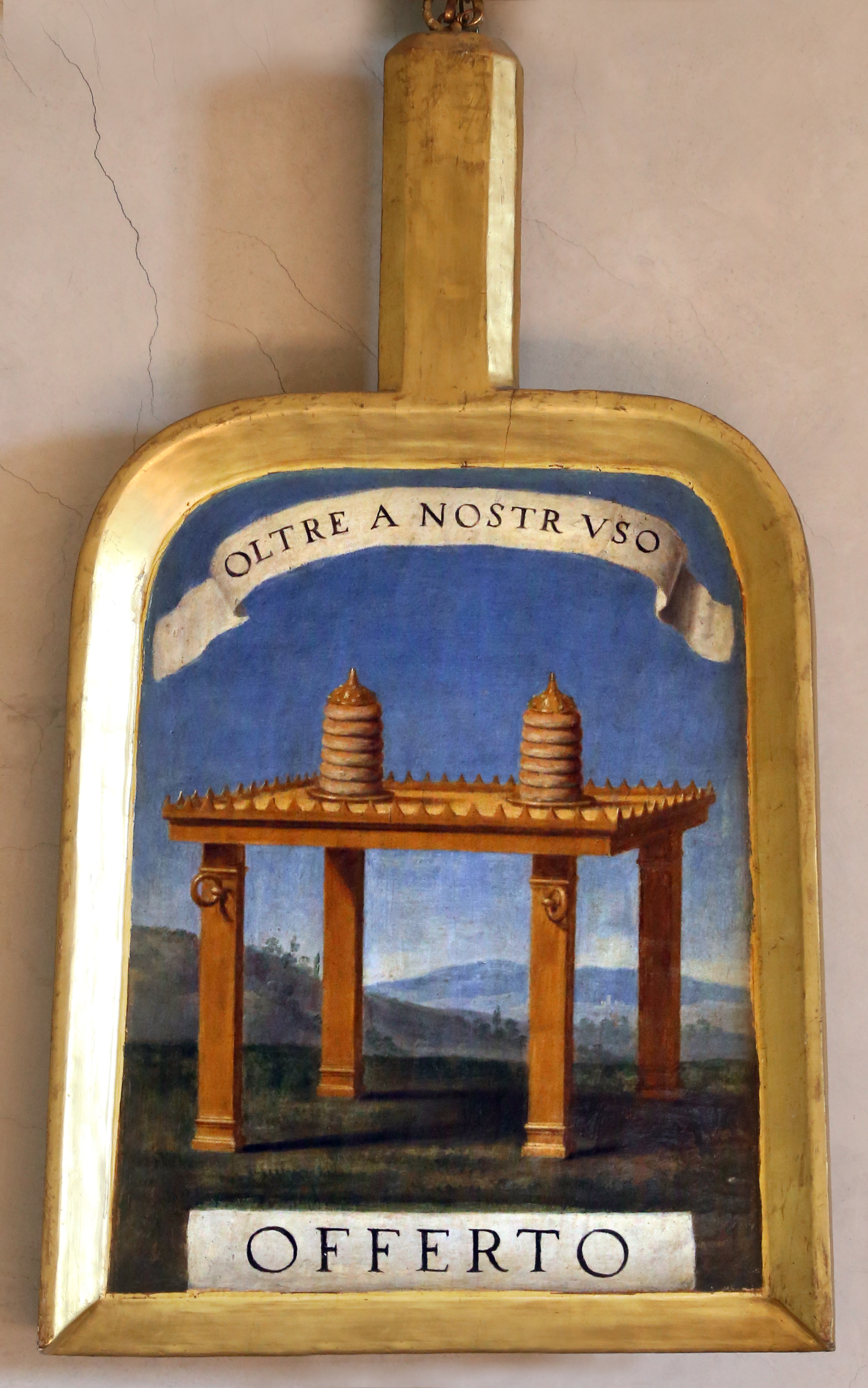 Shovels of Accademici della Crusca